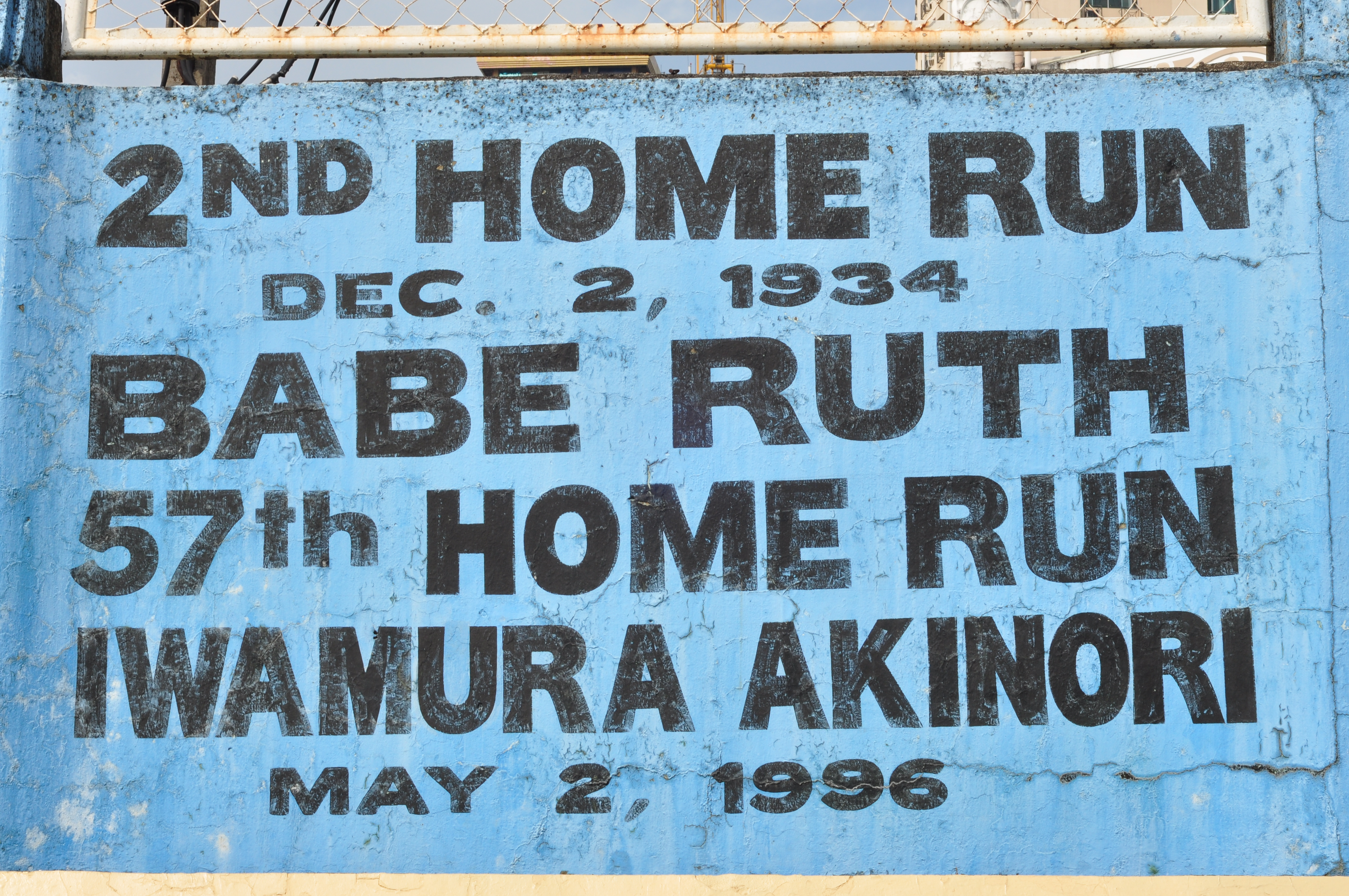 Wall Mural of Home-run Hitters at Rizal Memorial Ballpark Stadium.